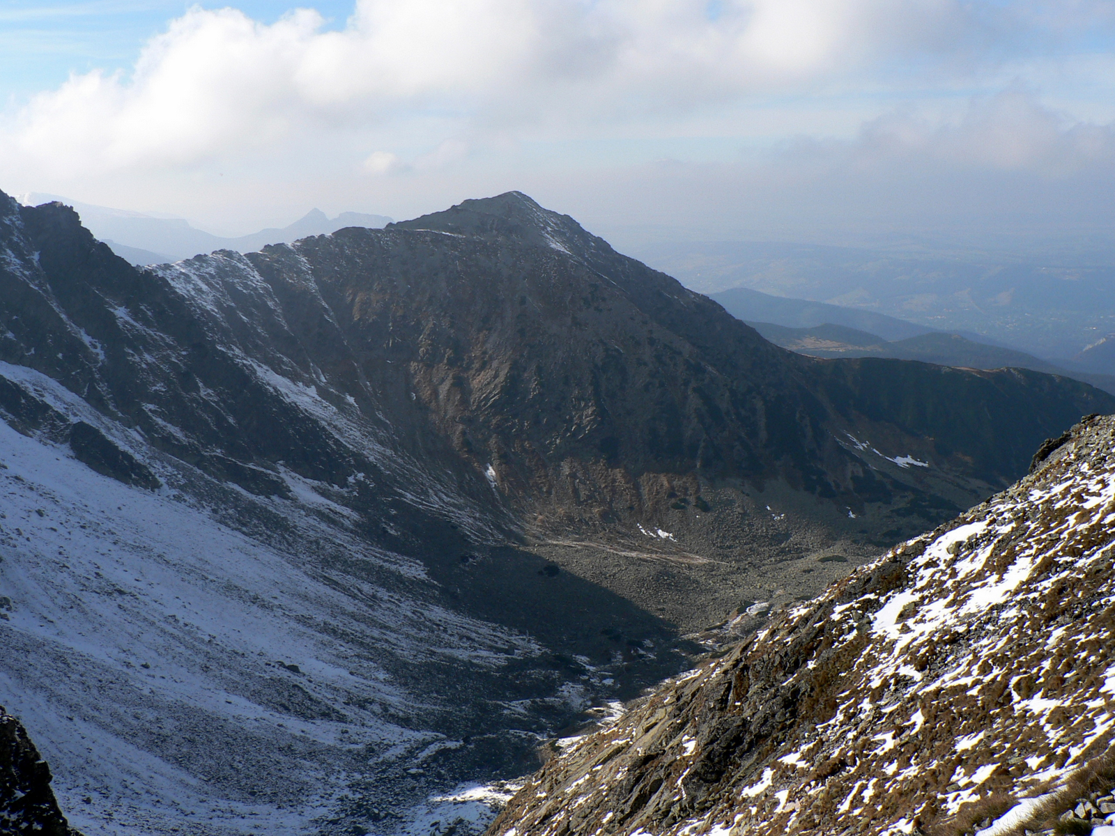 Pańszczyca Valley and Żółta Turnia from path from Krzyżne Pass